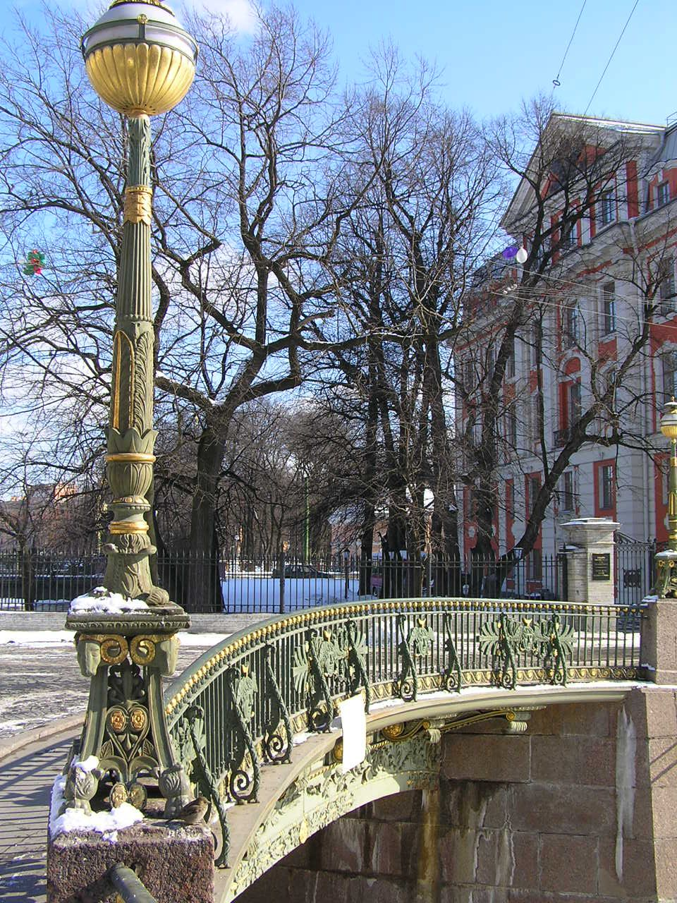 Saint Petersburg,Russia-Magic winter impressions Moika bridge